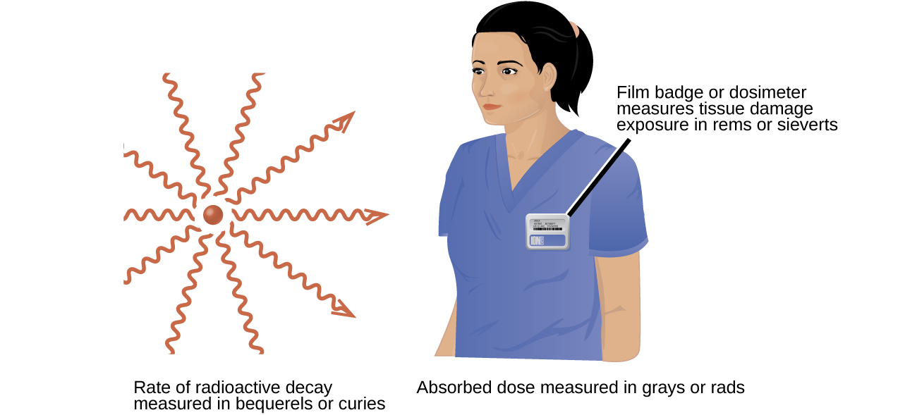 Image or illustration from the book: Chemistry Caption:Missing, please see book Book summary:Chemistry is designed for the two-semester general chemistry course. For many students, this course provides the foundation to a career in chemistry, while for others, this may be their only college-level science course. As such, this textbook provides an important opportunity for students to learn the core concepts of chemistry and understand how those concepts apply to their lives and the world around them. The text has been developed to meet the scope and sequence of most general chemistry courses. At the same time, the book includes a number of innovative features designed to enhance student learning. A strength of Chemistry is that instructors can customize the book, adapting it to the approach that works best in their classroom.